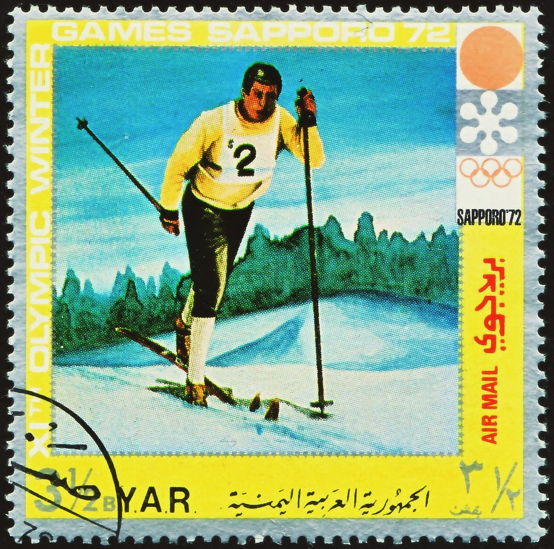 Stamp of the Yemen Arab Republic (North Yemen); 1971; commemorative air mail stamp to the 1972 Winter Olympics in Sapporo (Japan); drawing of the then Soviet cross-country skier Yuri Skobov at the 4 x 10 km race (gold medal winner) in the loipe; stamp postmarked Stamp: Michel: No. 1445; Yvert et Tellier: No. PA137-A Color: multicolored on silvercolored background Watermark: none Nominal value: 3½ (Yemen Bogash) Postage validity: from 2 October 1971 until ? Stamp picture size (printed area without sivercolored background): 43.0 x 43.0 mm (This stamp was part of a souvenir-minisheet with 8 different stamps to the same topic (1972 Winter Olympics in Sapporo).)